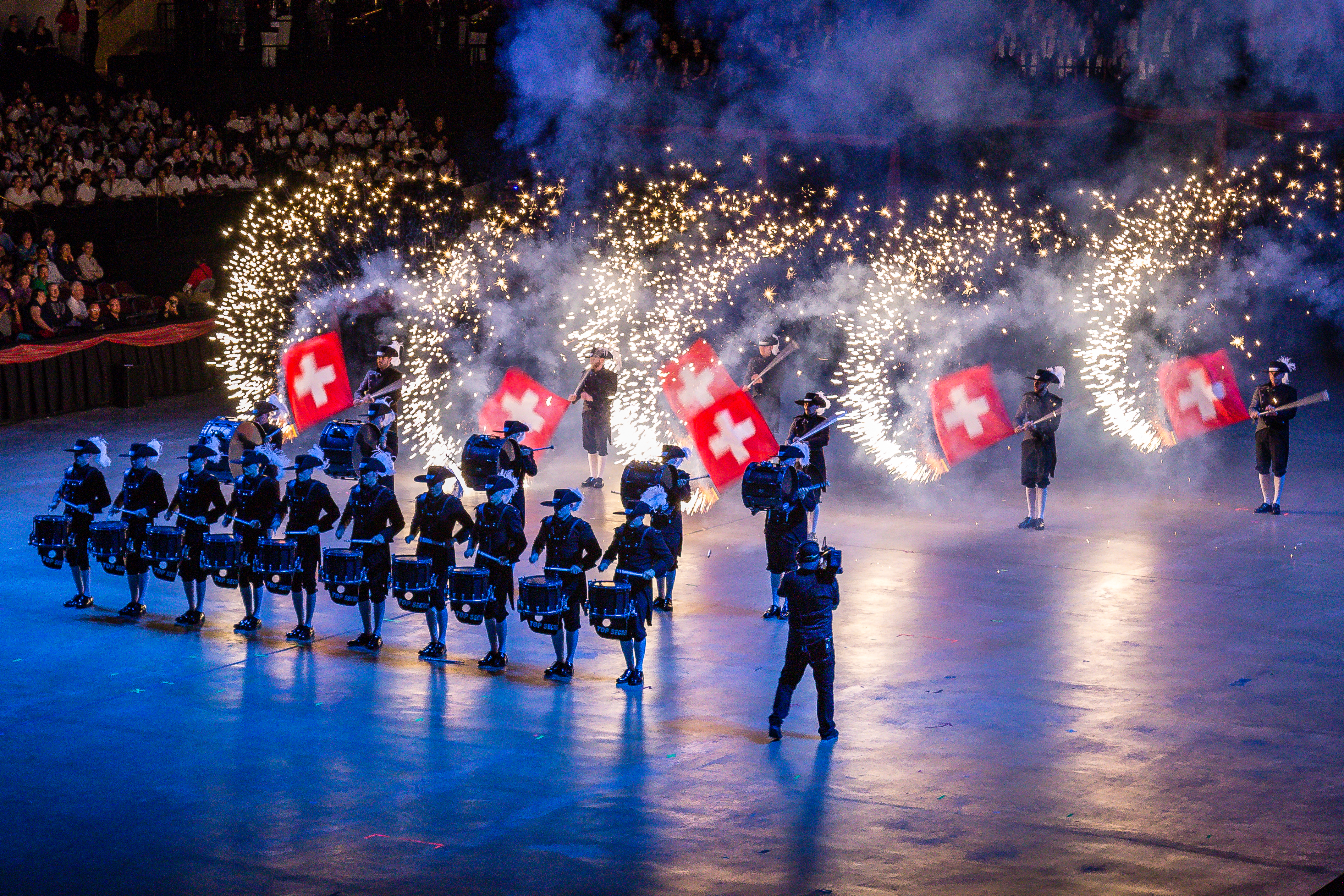 Virginia International Tattoo 2016 One of the World's Best - From Basel, Switzerland